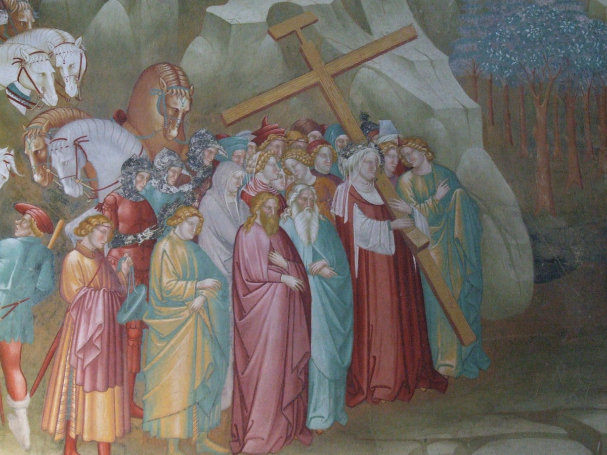 San Francesco (Church of St. Francis), Volterra, Italy